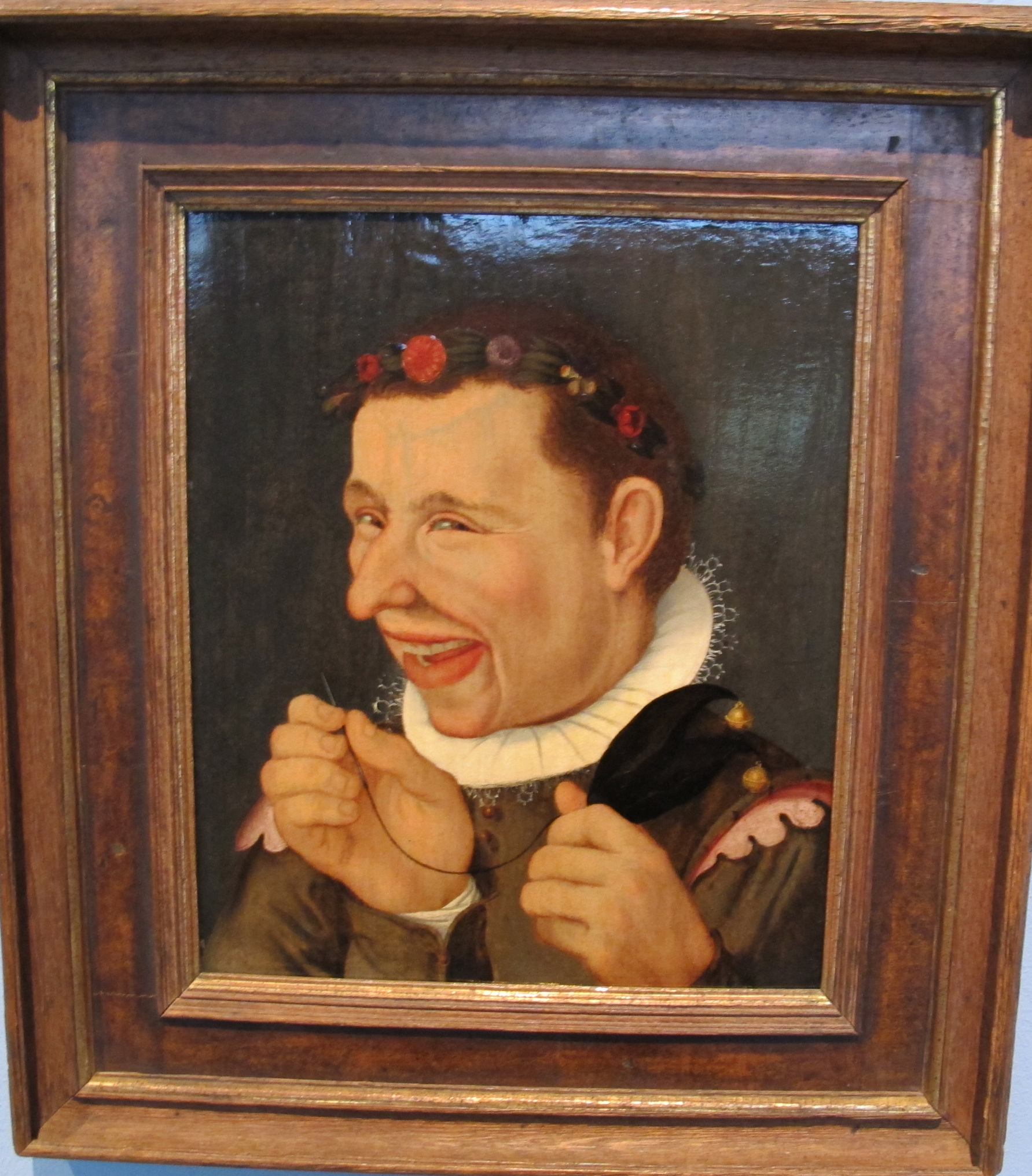 Andreas herneisen, un folle con ago e orecchie d'asino